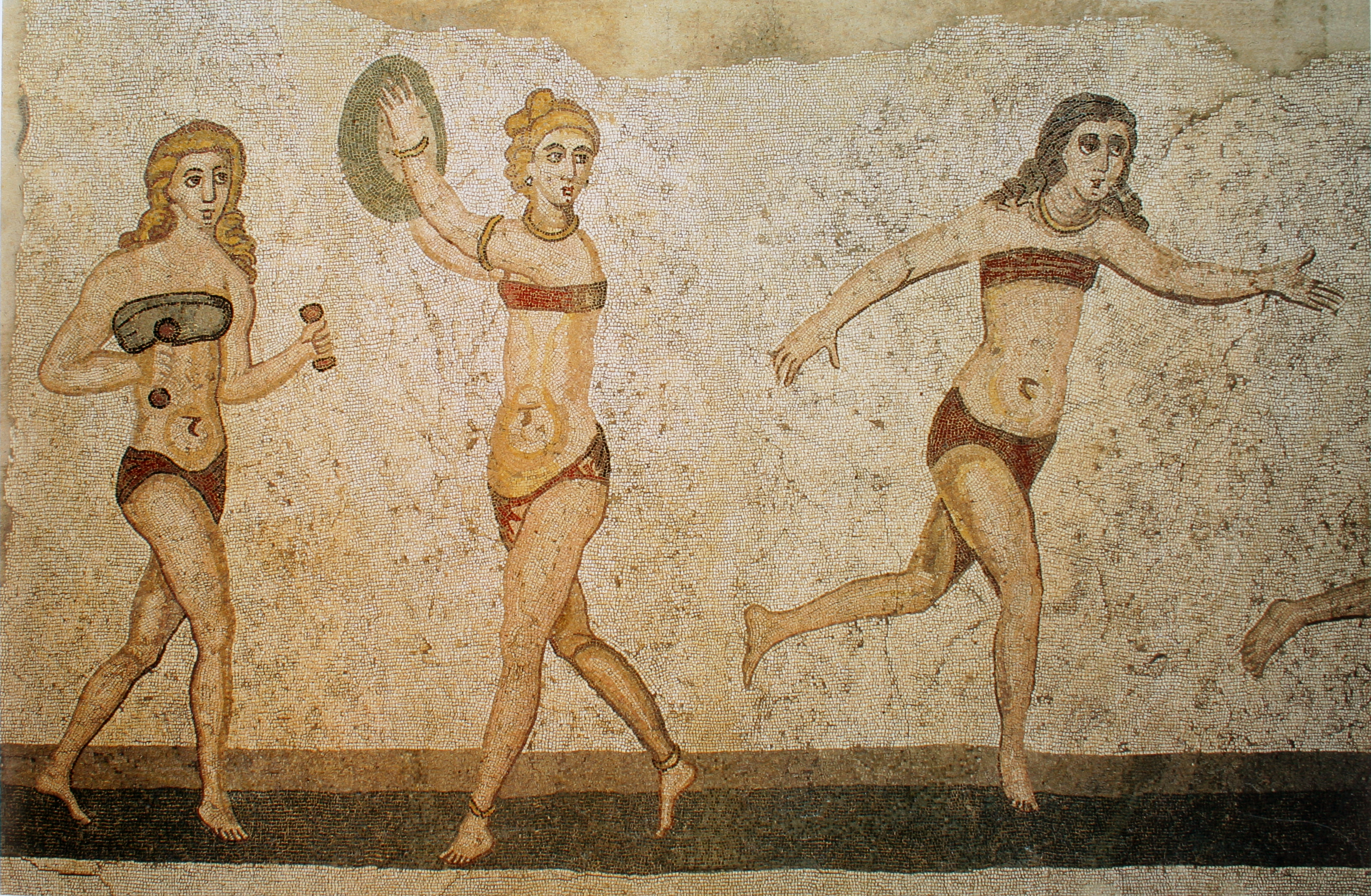 Bikini girls mosaic, Villa del Casale, Piazza Armerina, Sicily, Italy.